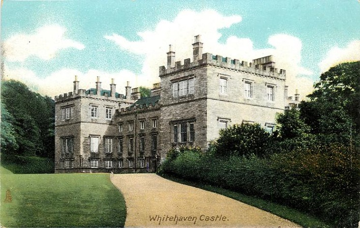 Old postcard of Whitehaven Castle